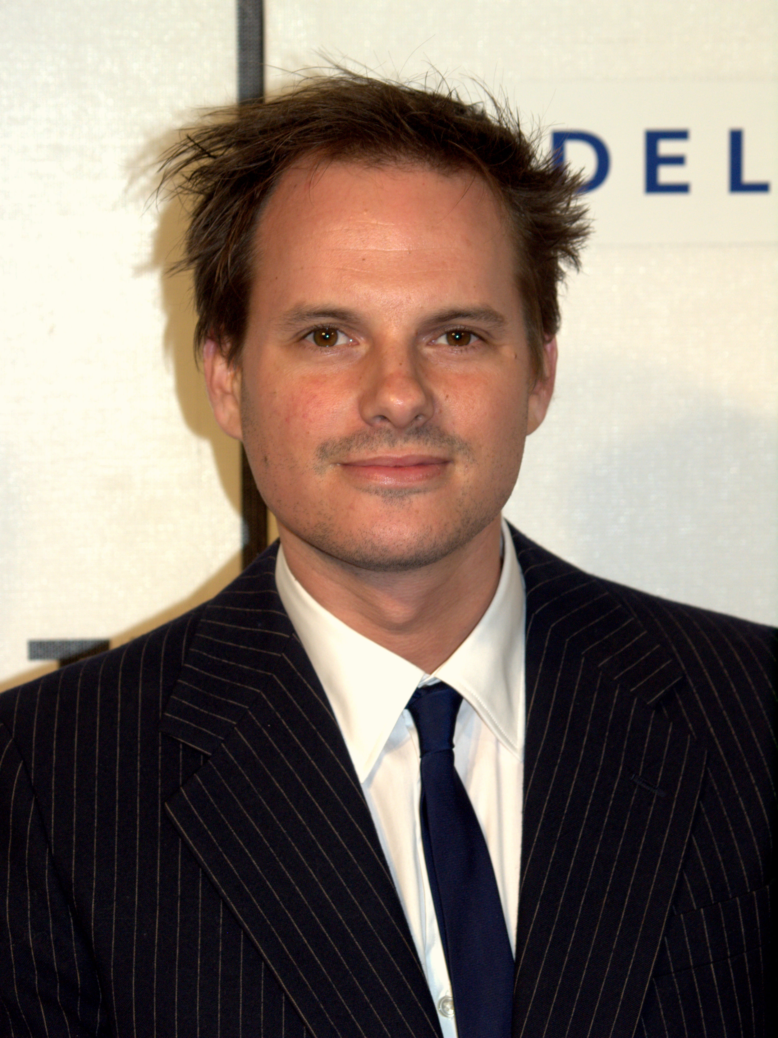 Andrew Lancaster at the 2009 Tribeca Film Festival premiere of Accidents Happen.